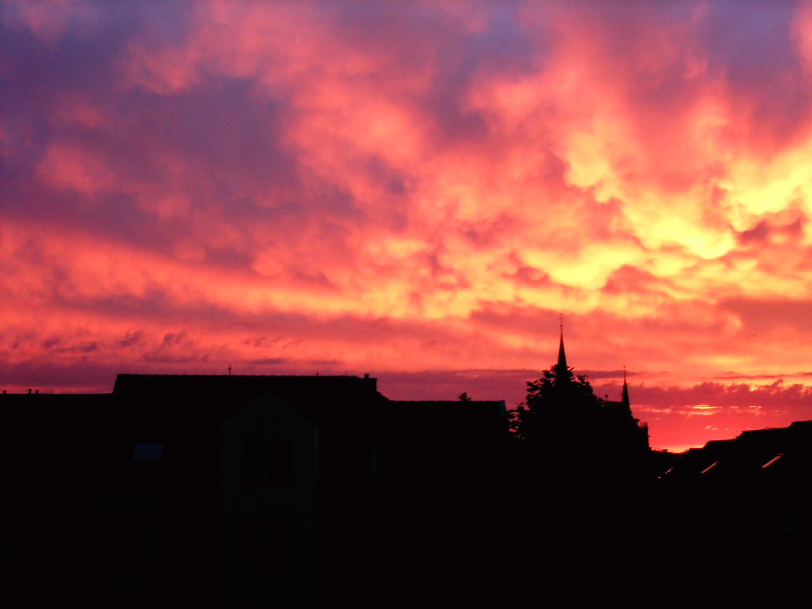 Sunrise, Aachen, Germany.